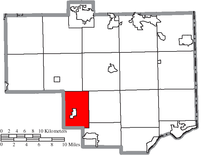 Map of the municipal and township boundaries of Columbiana County, Ohio, United States, as of the 2000 census, with the location of Franklin Township highlighted. Township borders are shown only in unincorporated areas in order to differentiate incorporated and unincorporated areas more clearly.